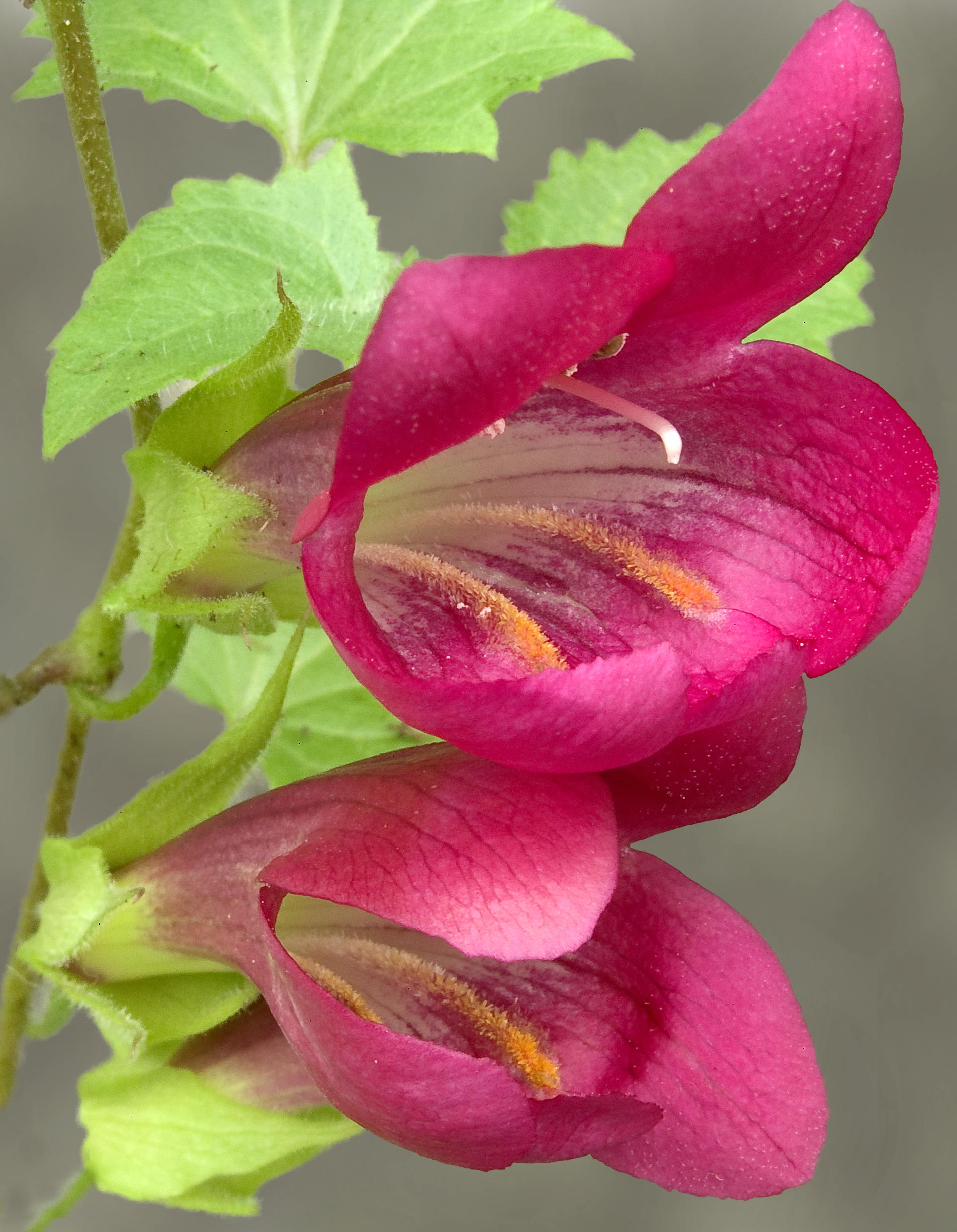 Close up of flowers of cultivated Lophospermum grown from commercial seed; fits Lophospermum scandens in the key in Elisens, Wayne J. (1985), "Monograph of the Maurandyinae (Scrophulariaceae-Antirrhineae)", Systematic Botany Monographs 5: 1–97